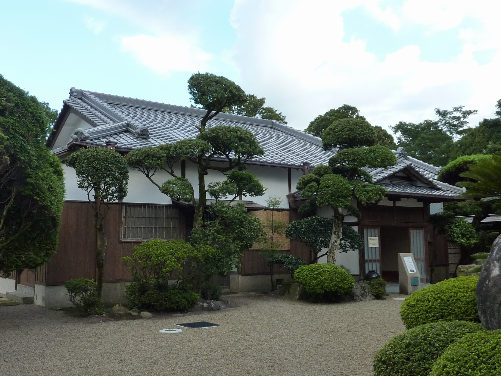 Miyakonojo Simazu Residence (Miyakonojo City, Japan)